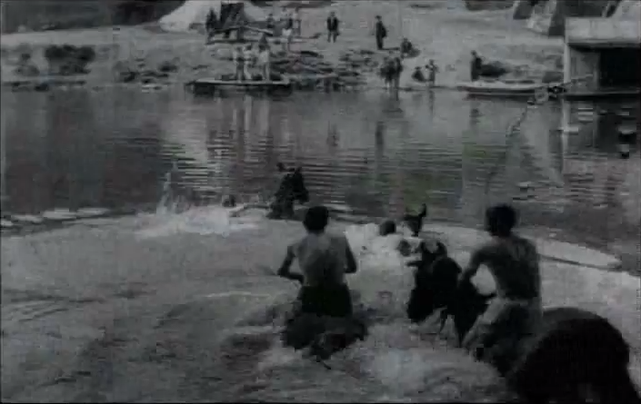 Dragons traversant la Saône à la nage